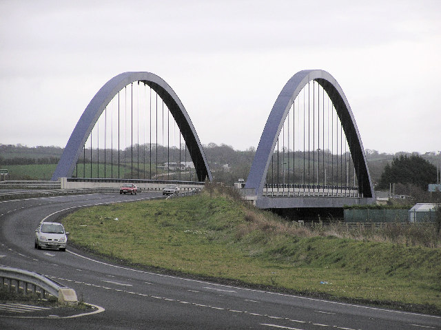 Toome Bridge. A new bridge over the river Bann, and part of the new Toomebridge bypass, it has made a great difference to a former busy bottleneck through the village. The arches are lit up at night which makes a very pretty sight.